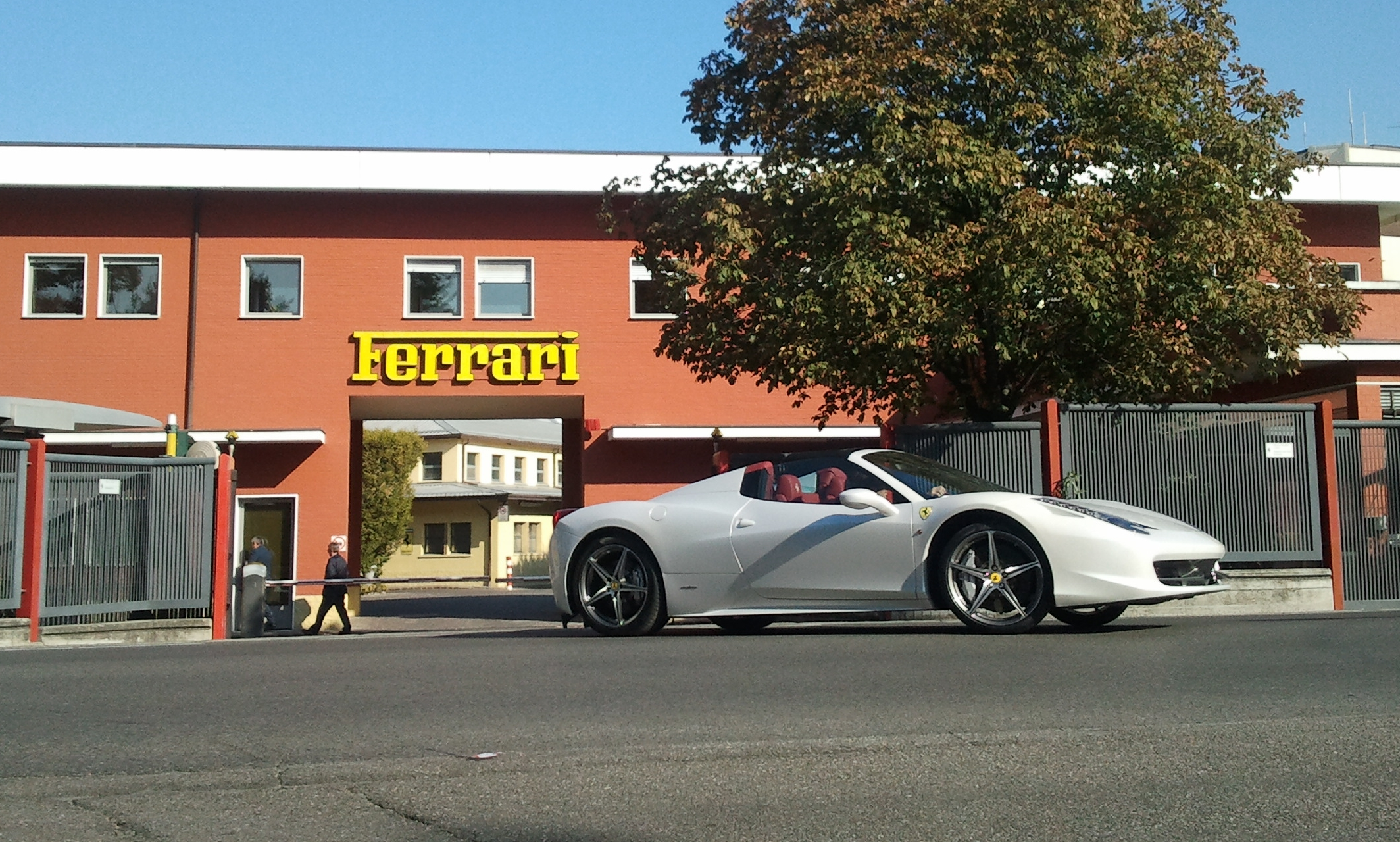 Ferrari 458 Spider at Ferrari factory and head office facility in Maranello. Italy